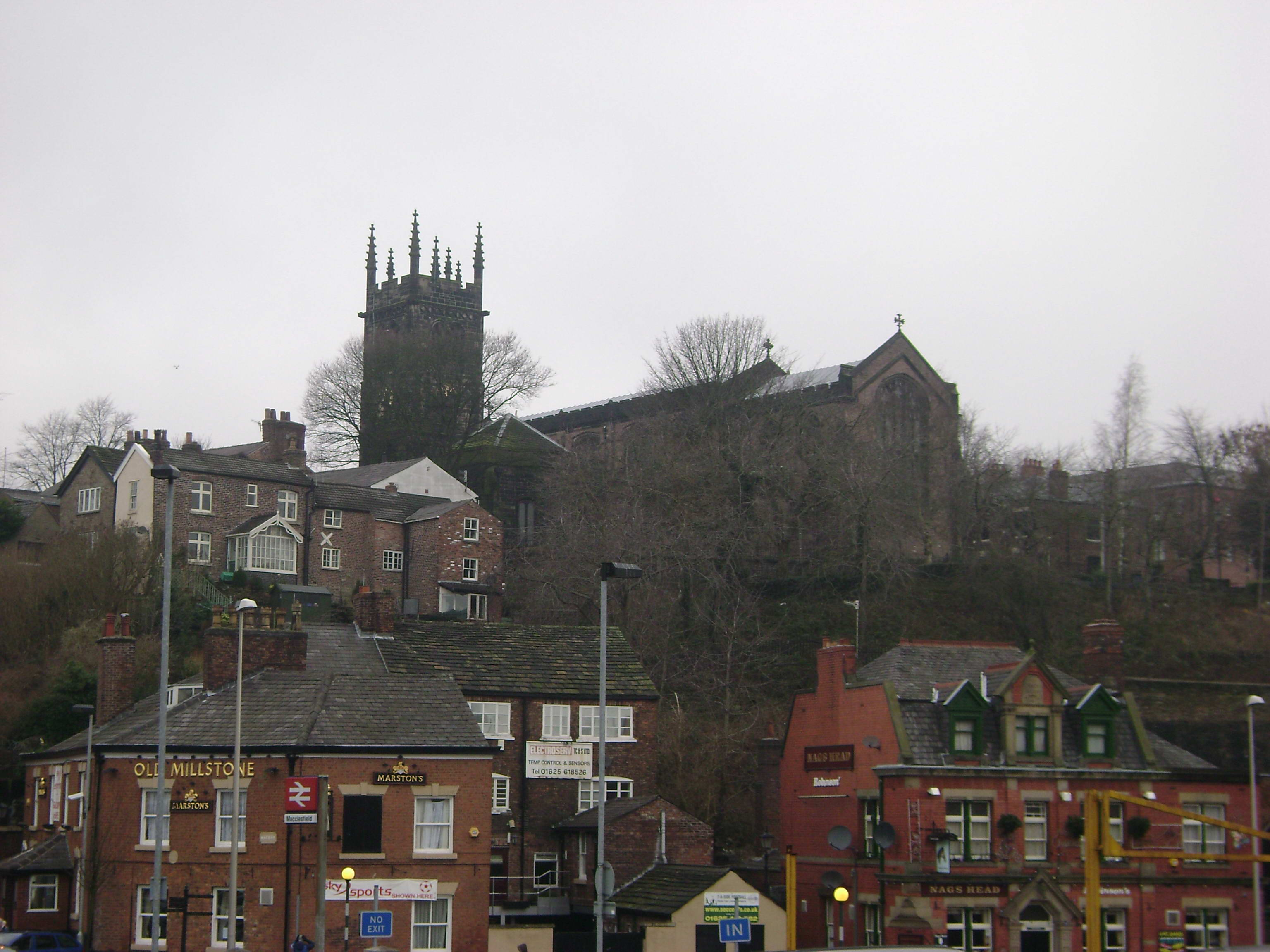 St. Michael's Church Seen From Outside Macclesfield Railway Station